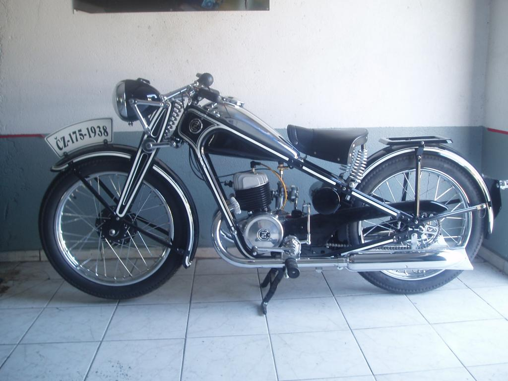 Czech motorcycle ČZ 175 type Special